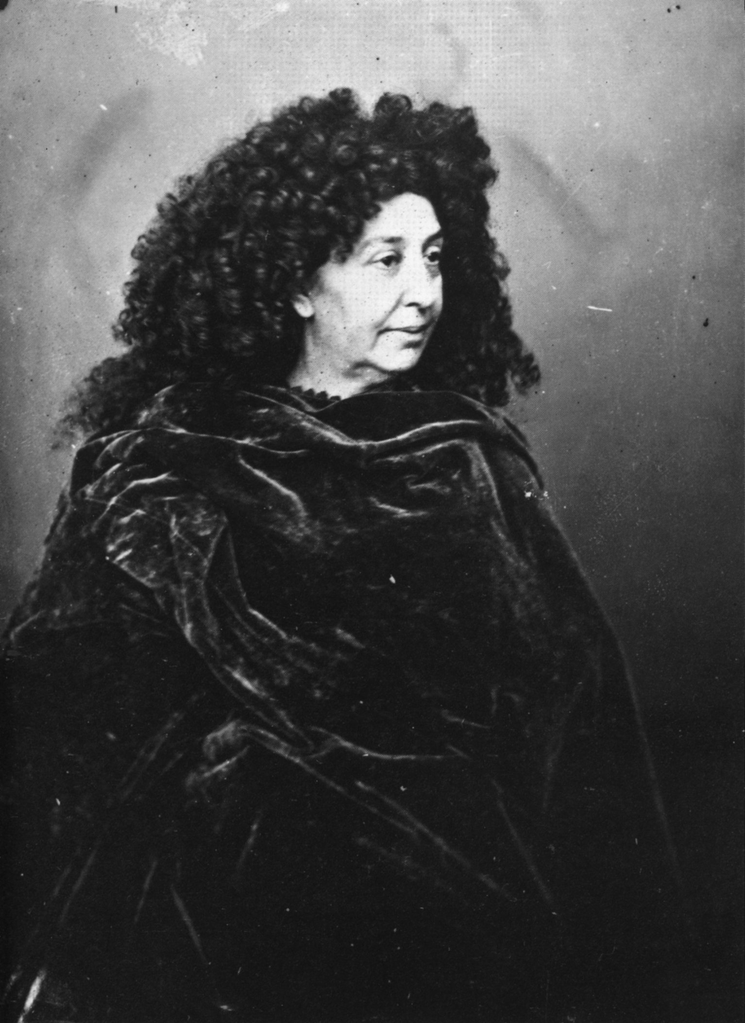 Portrait of George Sand (1804-1876)